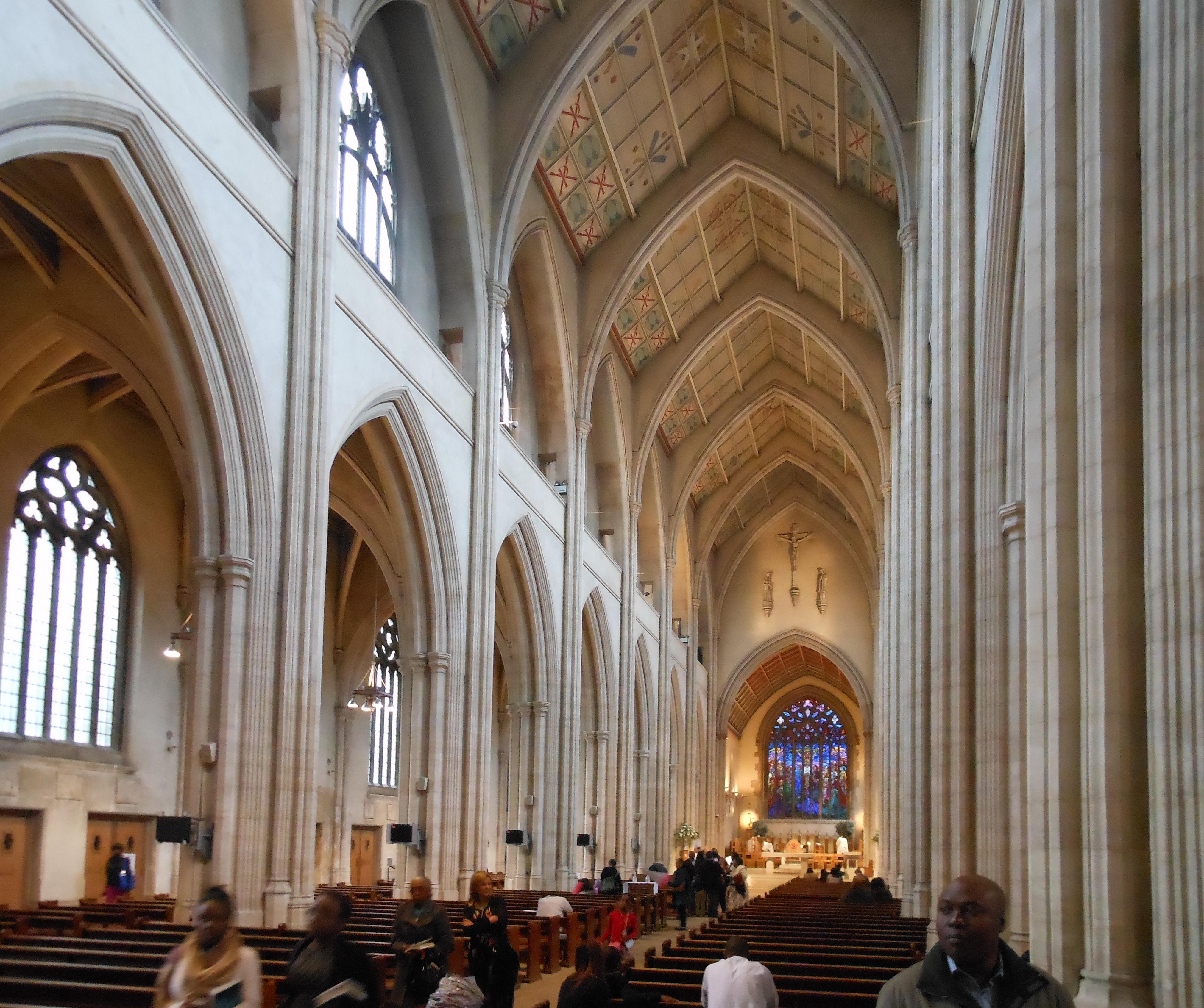 London, Southwark, Saint George's Roman Catholic Catedral, interior